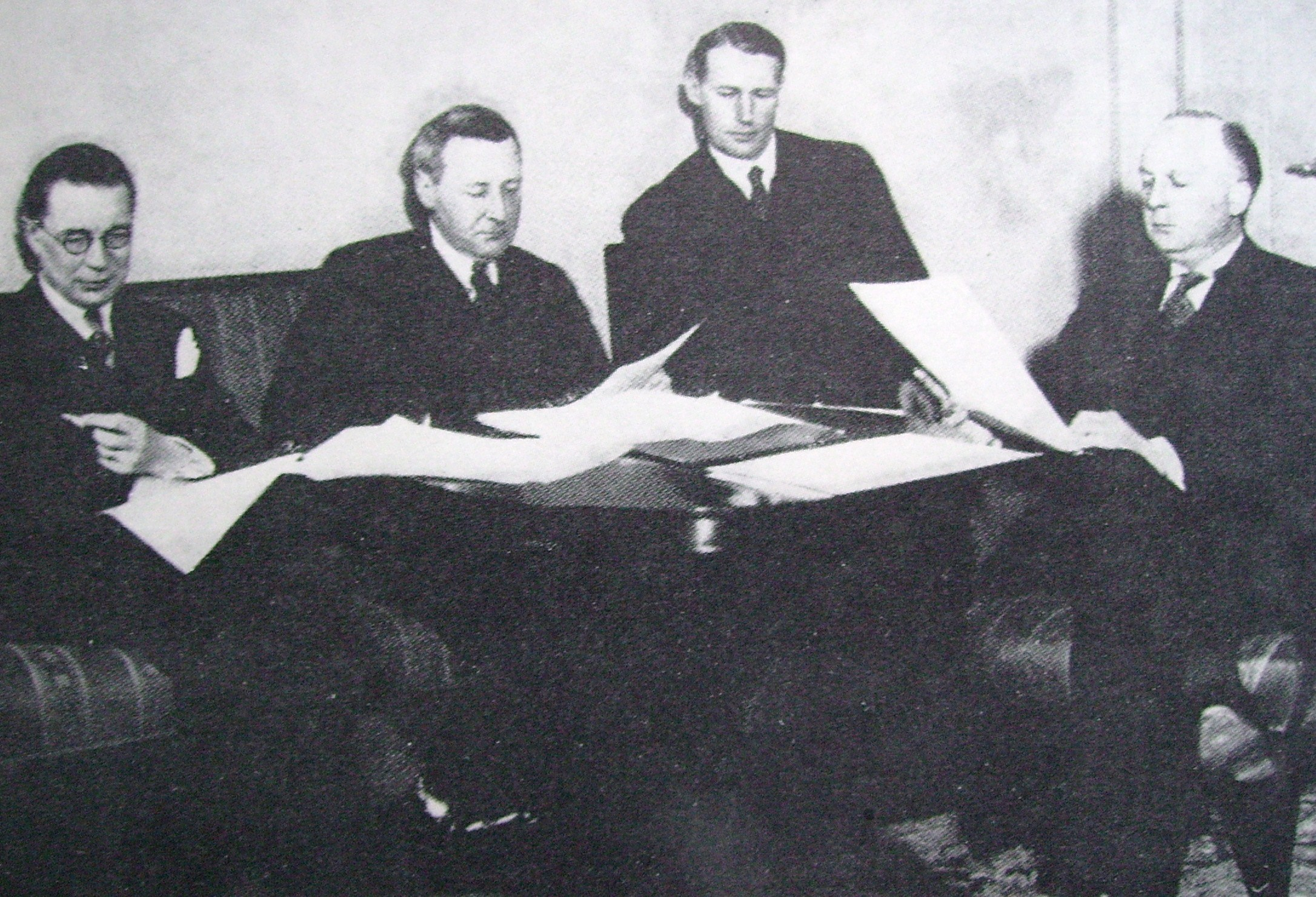 Picture of a comitte on the economic collapse of Ivar Kreuger. In picture E. Browaldh,T. Nothin, J.Wallenberg, and M. Fehr.